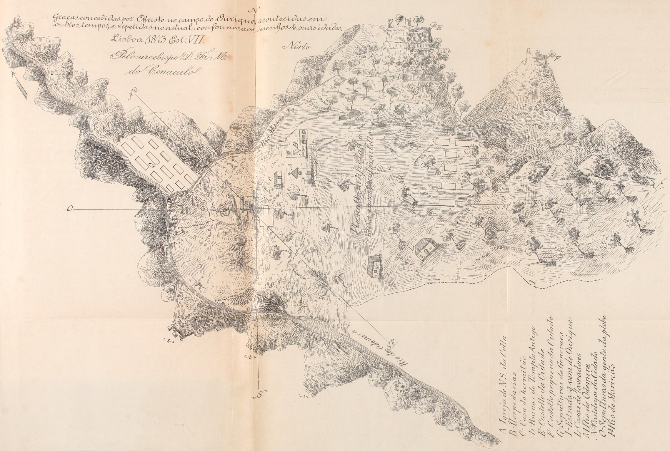 Map of the Cola castle, in Ourique municipality, in Portugal. This drawing was made by the religious and historian Manuel do Cenáculo in 1813, and then copied by the archaeologist Estácio da Veiga. This drawing was taken from the book Antiguidades Monumentaes do Algarve: Tempos Prehistoricos, published by Estácio da Veiga em 1891.